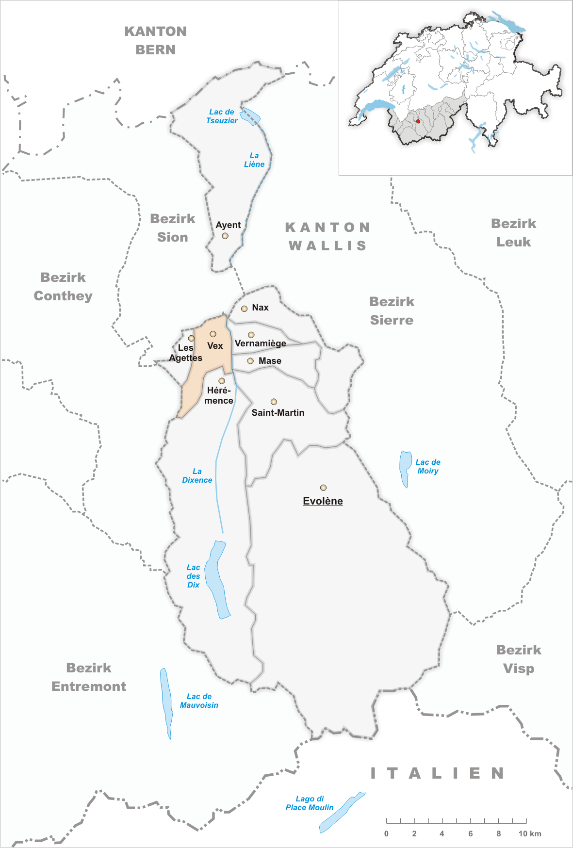 Municipality Vex